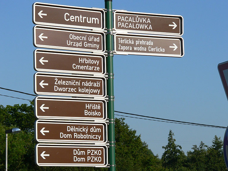 Description: Bilingual signs in Albrechtice (Olbrachcice), Czech Republic. Date: 26 July, 2007 Camera: Panasonic DMC-FZ20 Author: Czesil